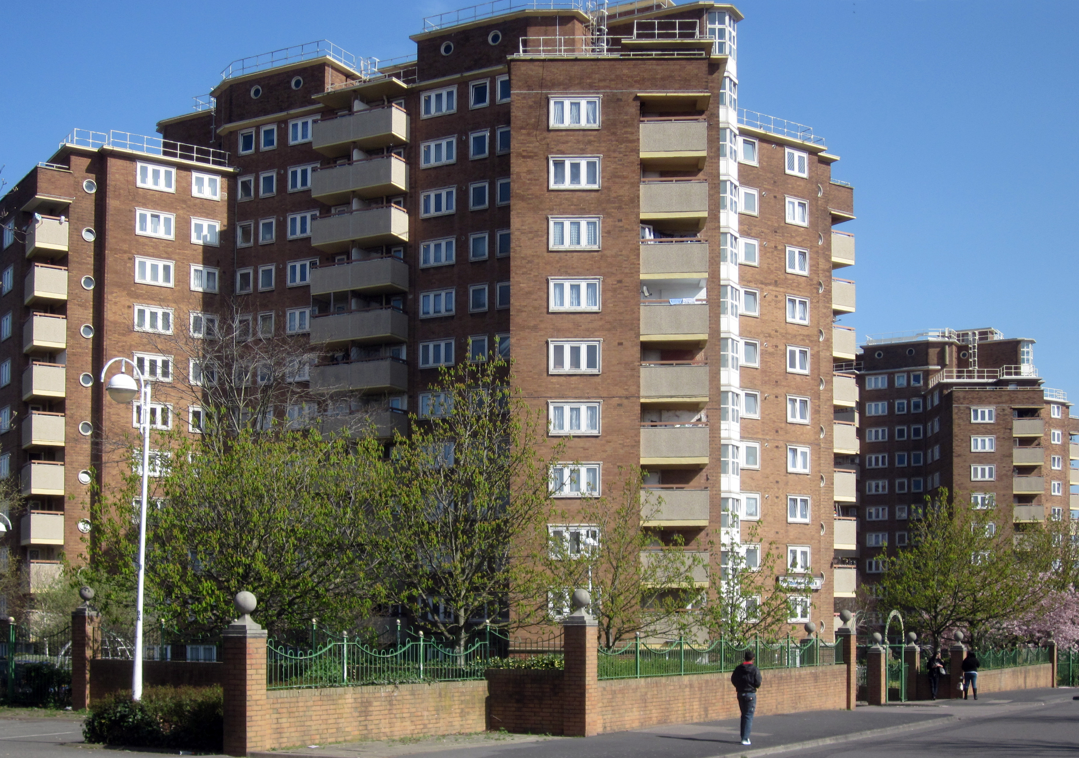 Birmingham's first post-war multi-storey flats in Nechells. Verticals corrected.